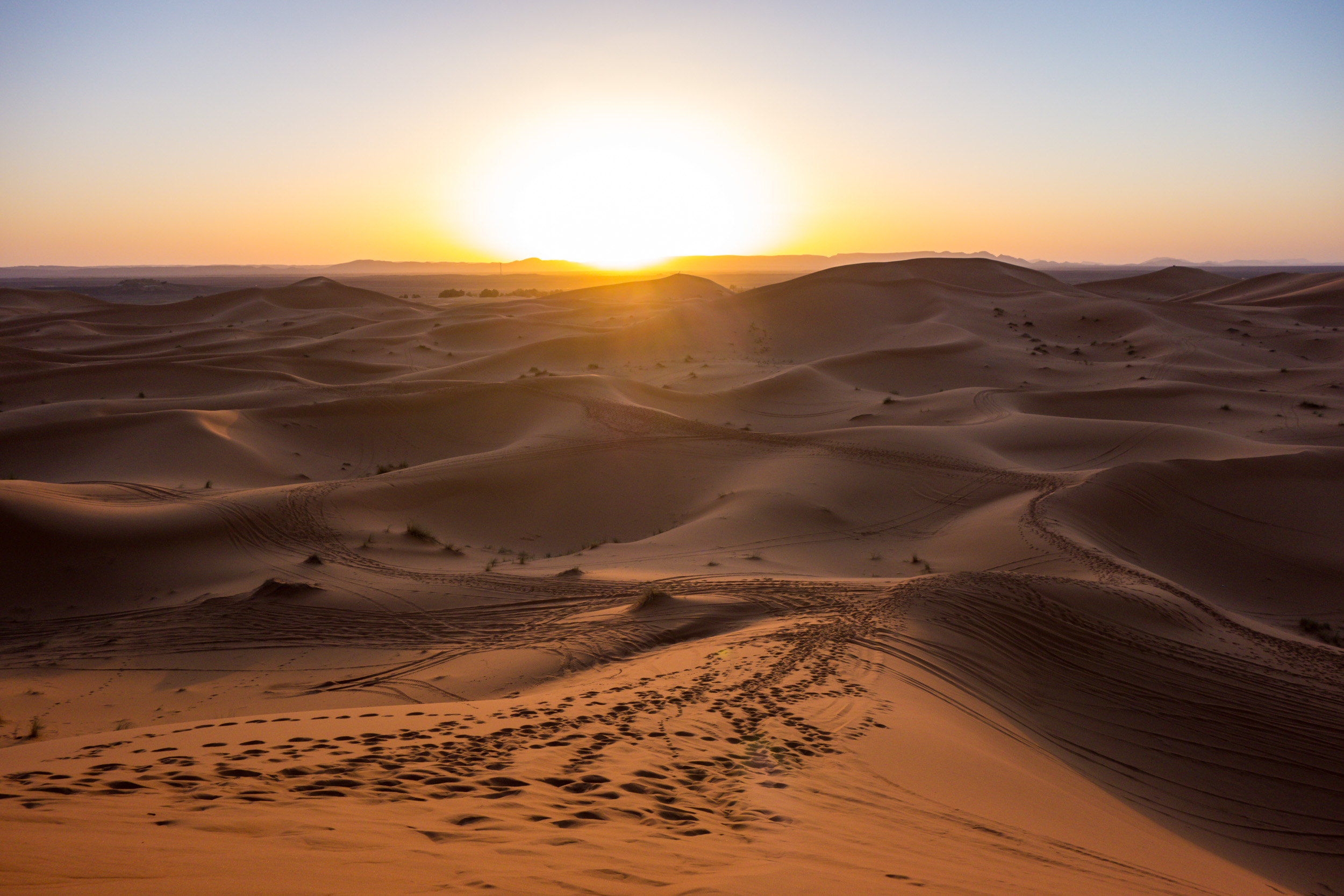 Morocco - Marrakech to Sahara